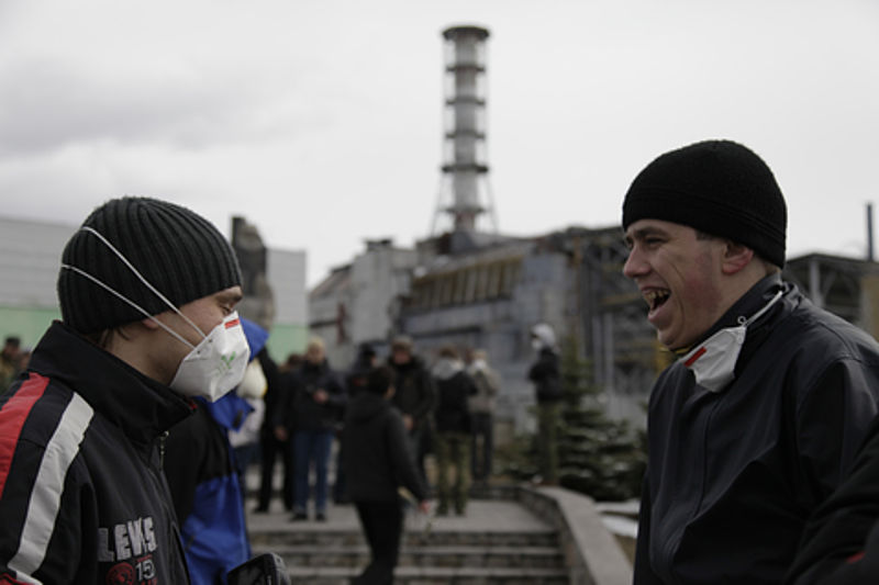 Tourists stand outside of the Chernobyl reactor.